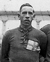 Swedish footballer Rune Bergström at the Olympics, 1920. In lineup before game against Greece, 28th of August.